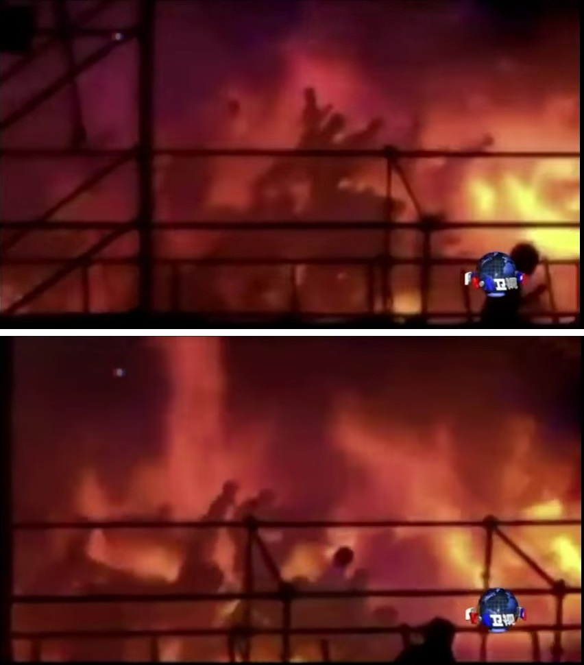 On 27 June 2015, a "color powder party" held inside a drained swimming pool at a water park at night in Taiwan caught a fire.